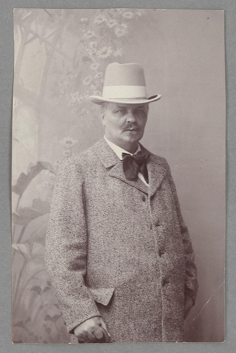 Portrait of Swedish author August Strindberg, Furusund Date: 1899 (summer) Photographer: Unknown Part Of: National Library of Sweden, Collection of Manuscripts